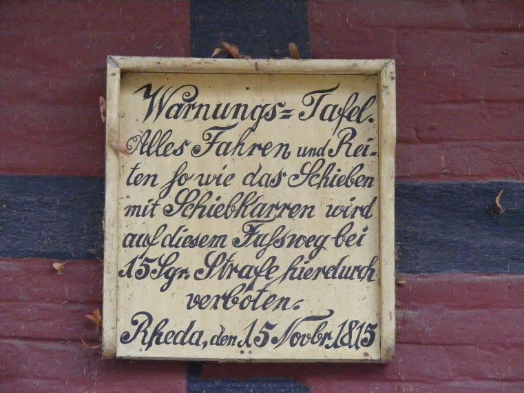 warning